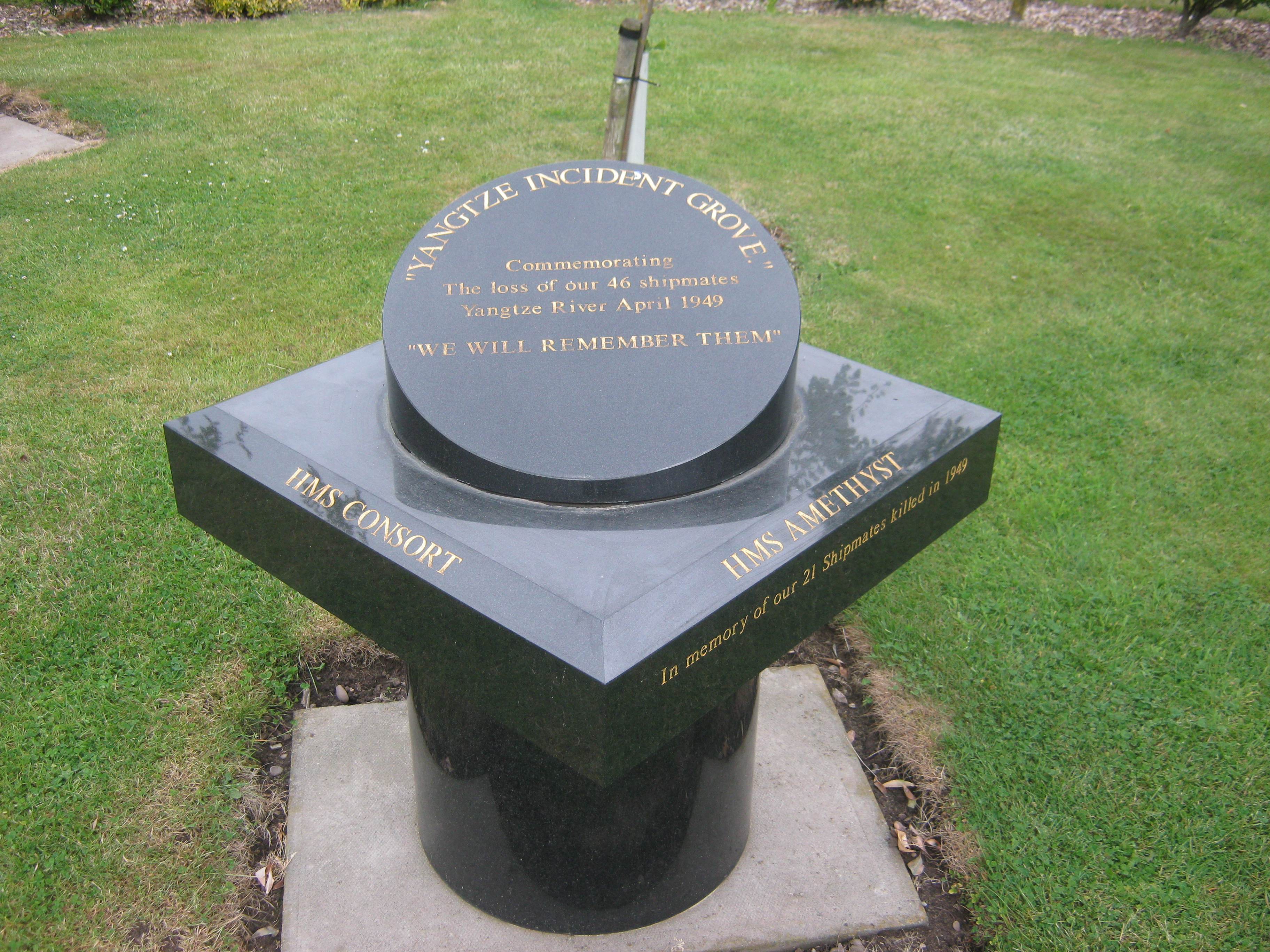 Yangtze Incident Memorial at the National Memorial Arboretum